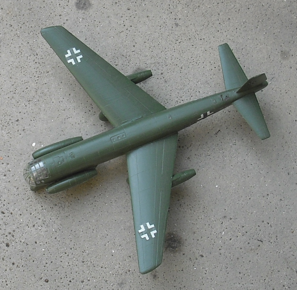 Model photo Junkers Ju 287 V1.